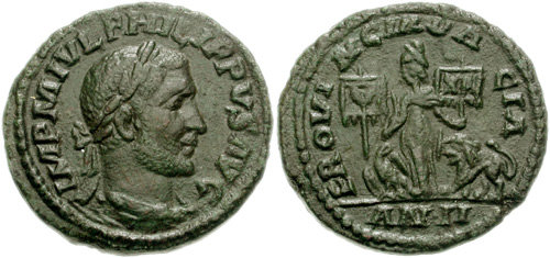 Philippus Arabus. 244-249 AD. PROVINCIA DACIA. Æ 29mm (16.47 gm, 1h). Dated local era year 2 (247/48 AD). IMP M IVL PHILIPPVS AVG, laureate and draped bust right PROVINCIA DACIA, AN II in exergue, Dacia standing left, holding sword (logobolon?) and standards of the legions V (with eagle) and XIII (with lion). AMNG I 9; Varbanov 6 var. (obv. legend); Mionnet Supp. II 5. Good VF, jade green patina. Rare variety. The personification of the province of Dacia holds either a sword, patera or grain ears, according to AMNG. The object on this coin resembles none of those, but rather the curved throwing stick used in hunting small game, the logobolon, but no identification can be certain. This local era for Dacia begins in 246 AD, the year Philip expelled barbarian invaders from the province.